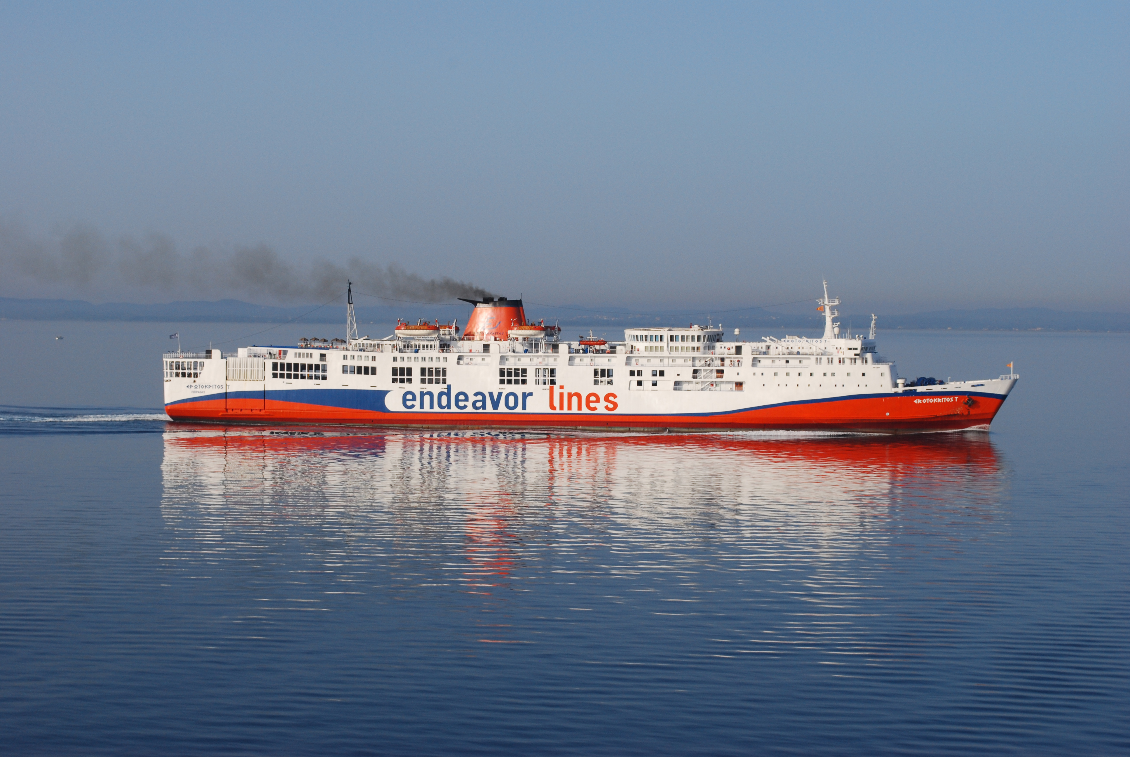 "Erotokritos T" of Endeavor Lines, in Adriatic Sea near Igoumenitsa (picture taken from "Olympic Champion" of ANEK Lines).